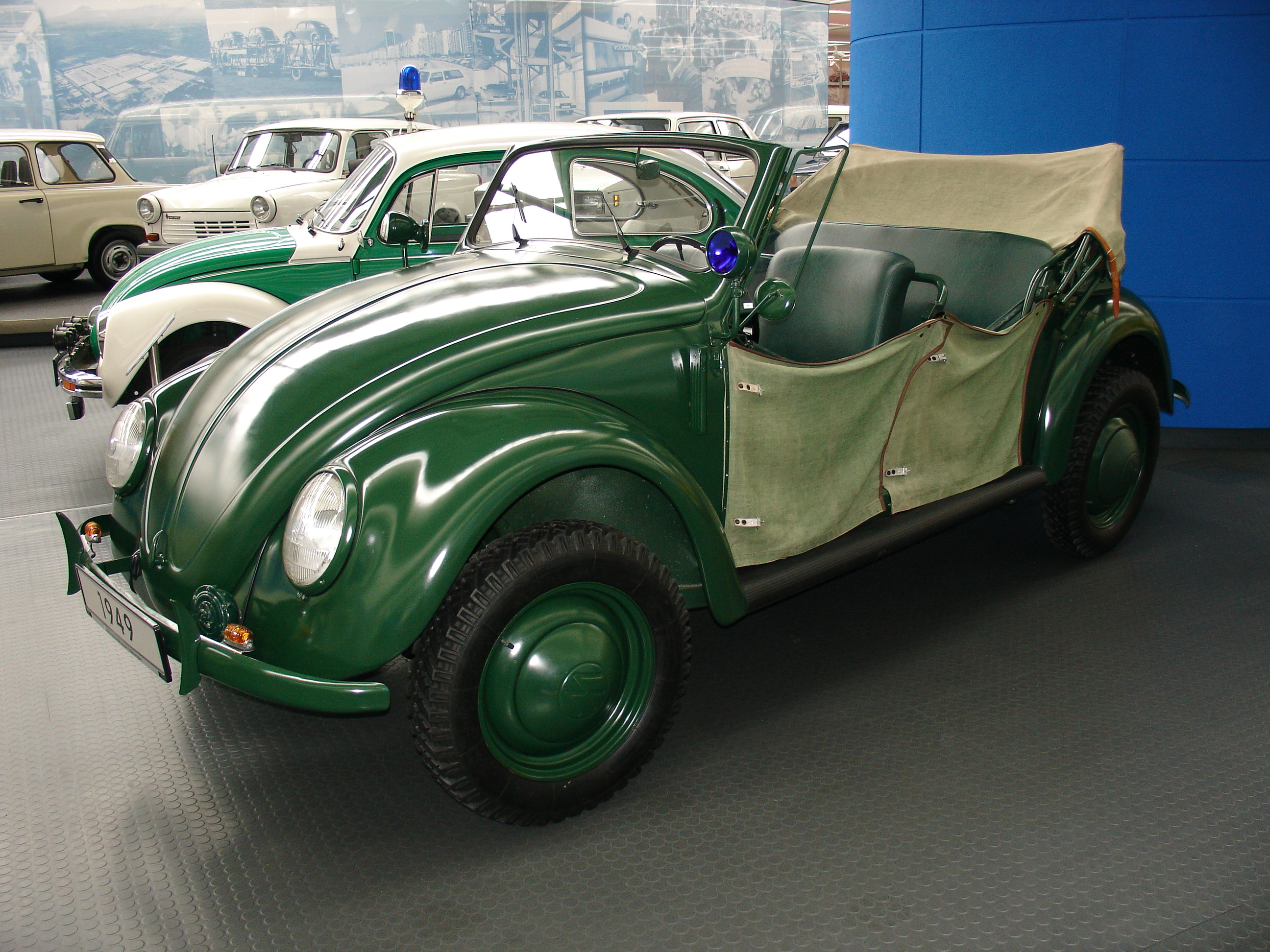 Volkswagen Type 18 A, "Polizei Cabriolet" produced by Hebmüller.